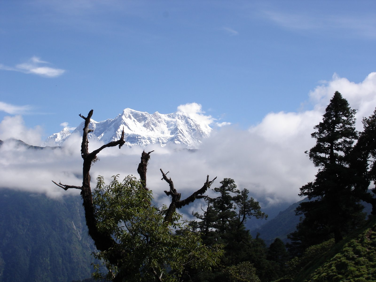 Himalaya, view from Tungnath, Uttarakhand.